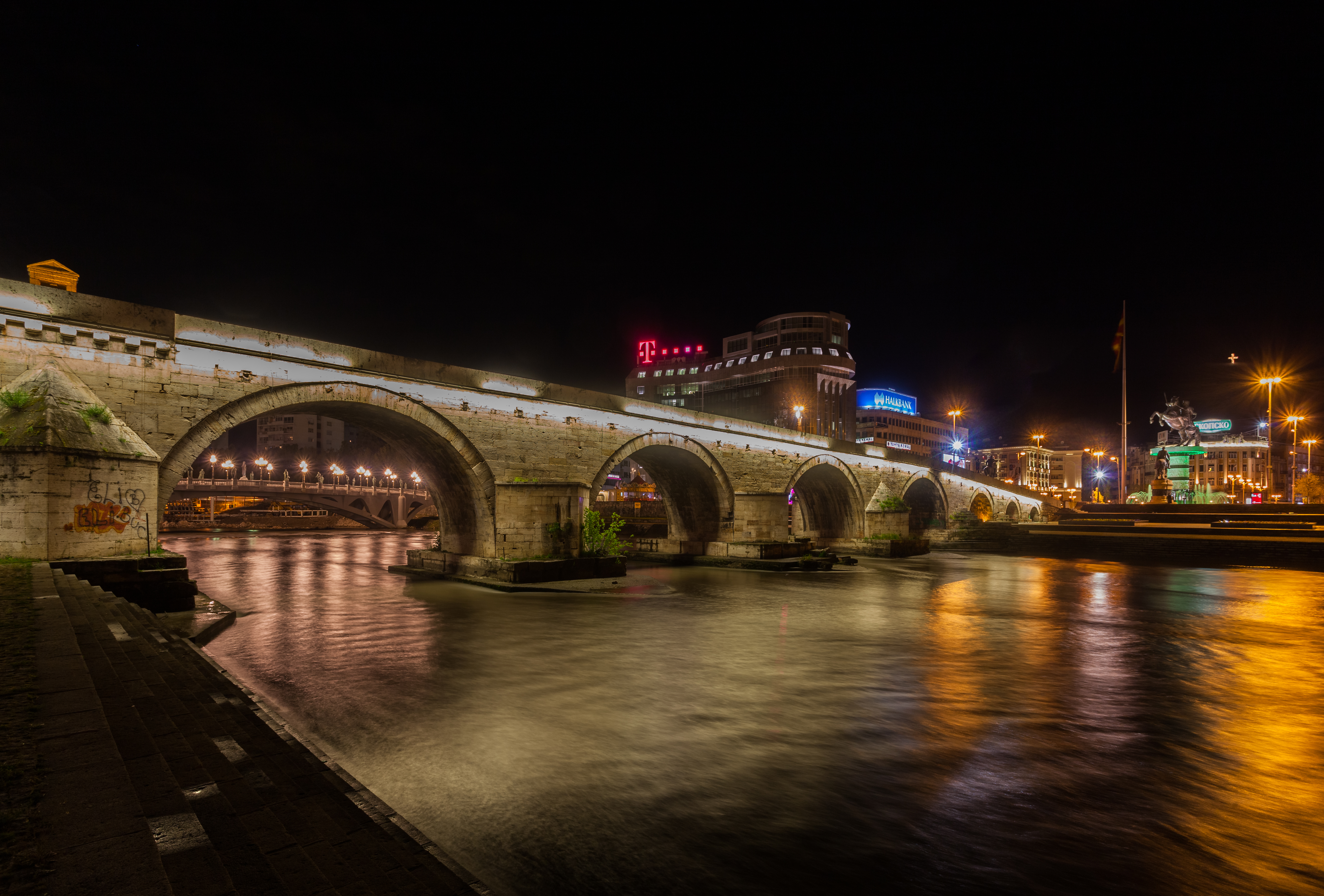 Stone Bridge, Skopje, Republic of Macedonia